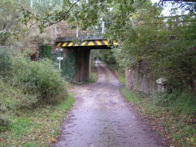 Railway bridge near Furzebrook. The road is not the old trackway. The old trackway passes under this bridge at 45 degs to the road.